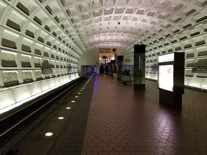 Stadium Armory Station while a train is serving the platform